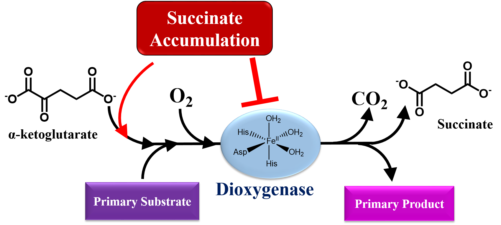 Sequential binding of substrates by dioxygenase allows succinate to function as a competitive inhibitor, preventing the binding of a-ketogluarate and inhibiting the enzyme